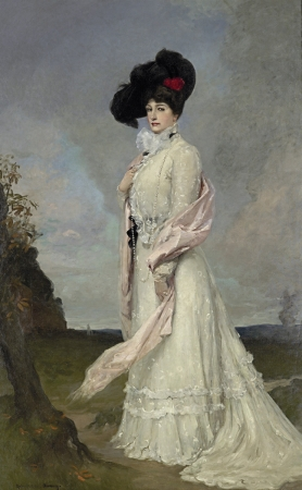 Madame Melba